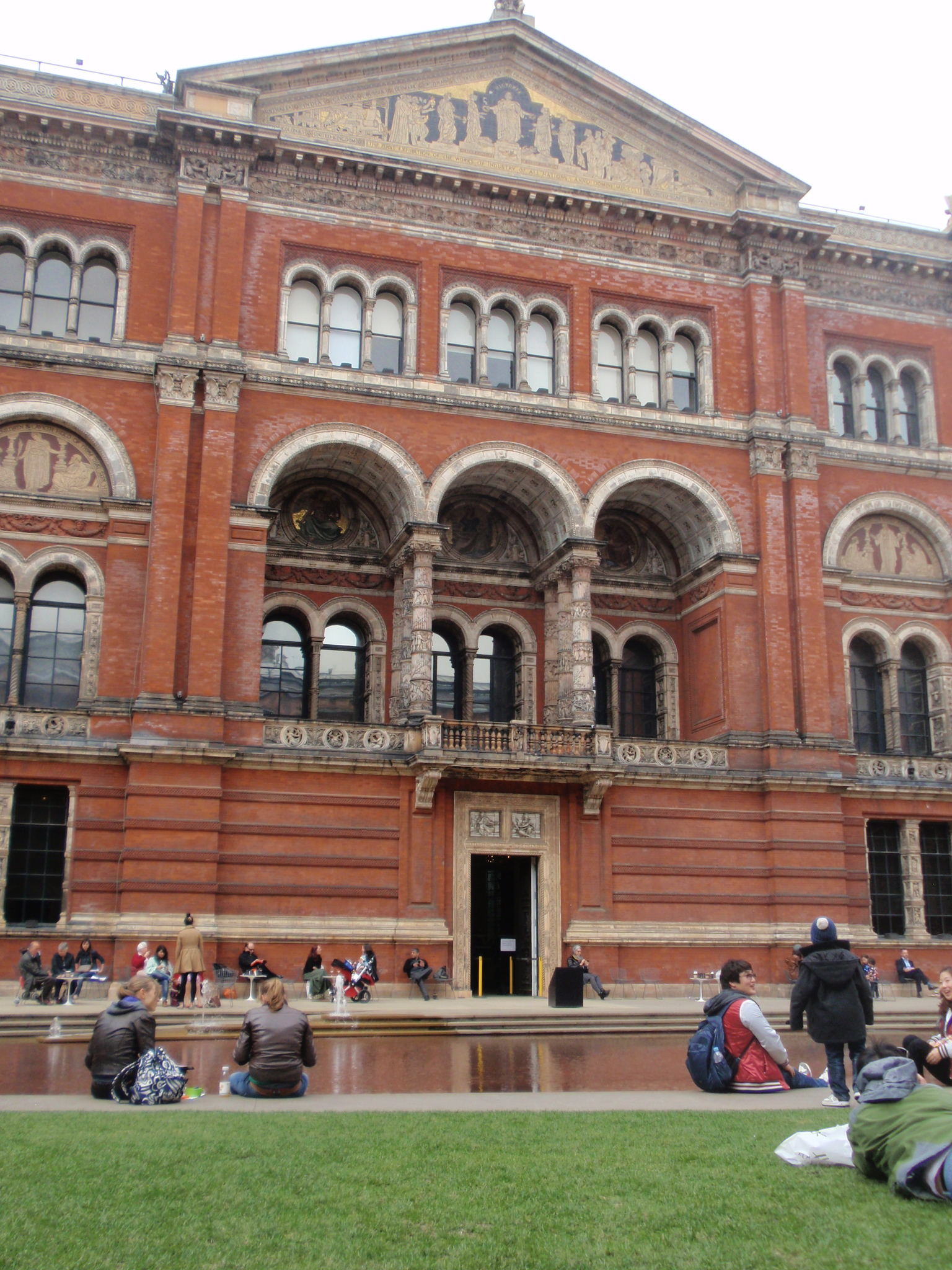 the inner courtyard of victoria&albert museum